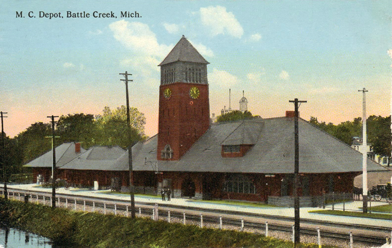 Michigan Central Depot, Battle Creek, MI. Postcard.